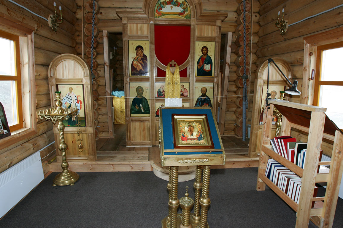 A View inside Trinity Church, Bellingshaussen, Antarctica 2005